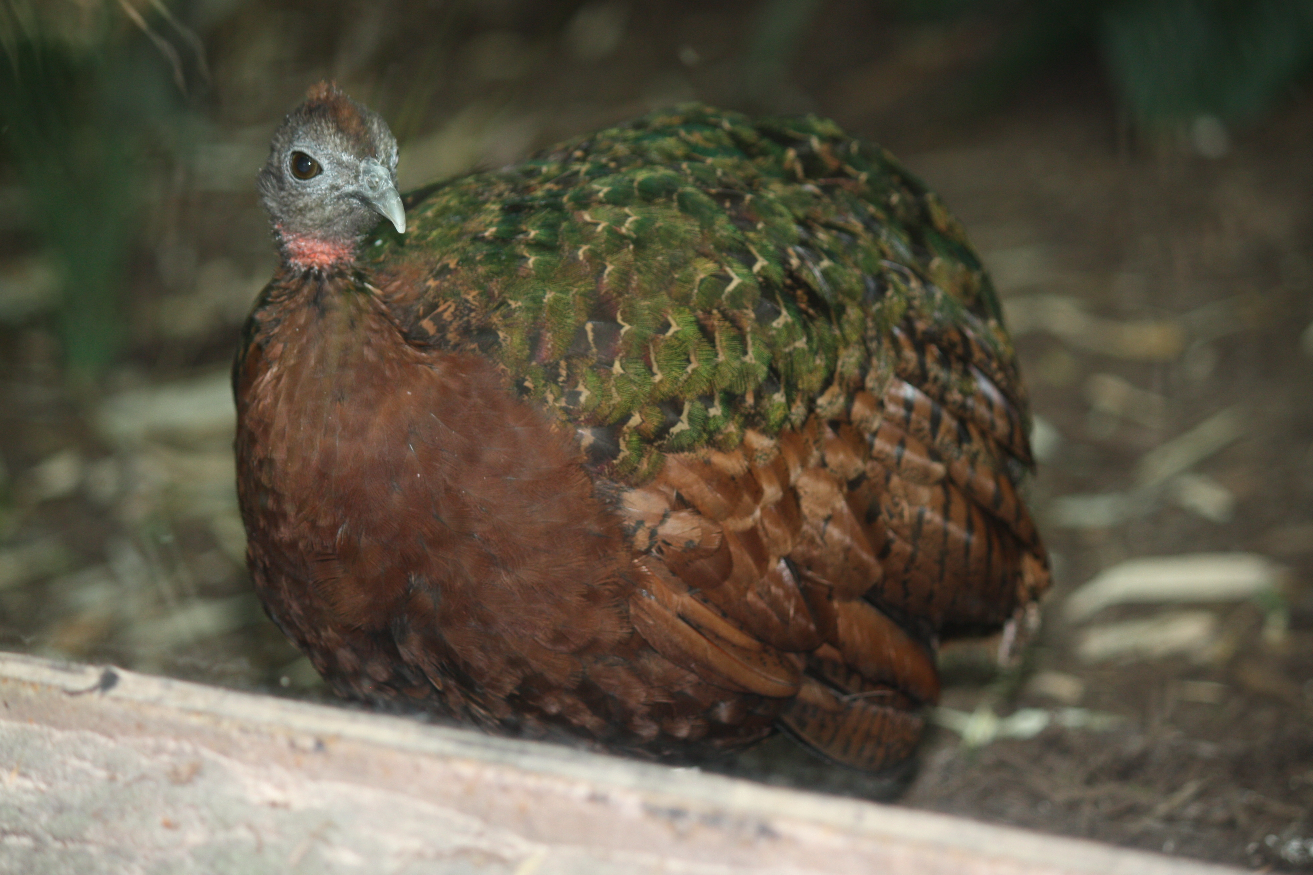 Congo Peafowl Afropavo congensis at Cincinnati Zoo